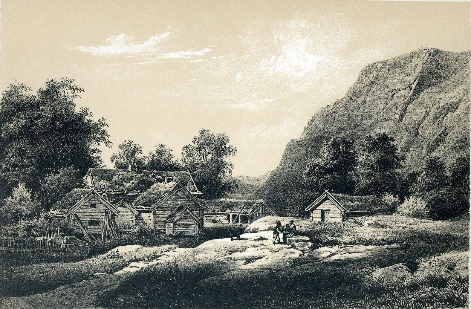 Picture from the work "Norge fremstillet i Tegninger" from 1848 by Chr. Tønsberg. The picture depicts Davik, Bremanger municipality, Sogn og Fjordane county, Norway.